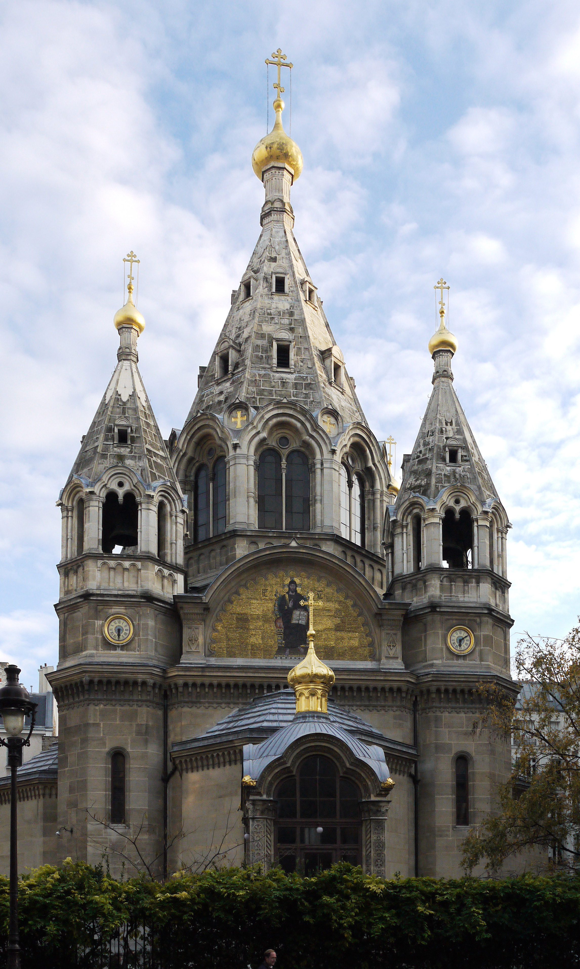 Orthodox church Saint Alexandre Nevski - rue Daru - Paris 8th district (France)